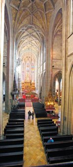 Main nave of St.Elisabeth Cathedral Košice